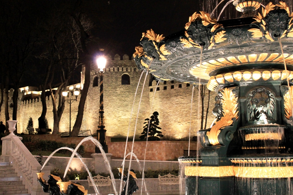 Baku azerbaijan old City